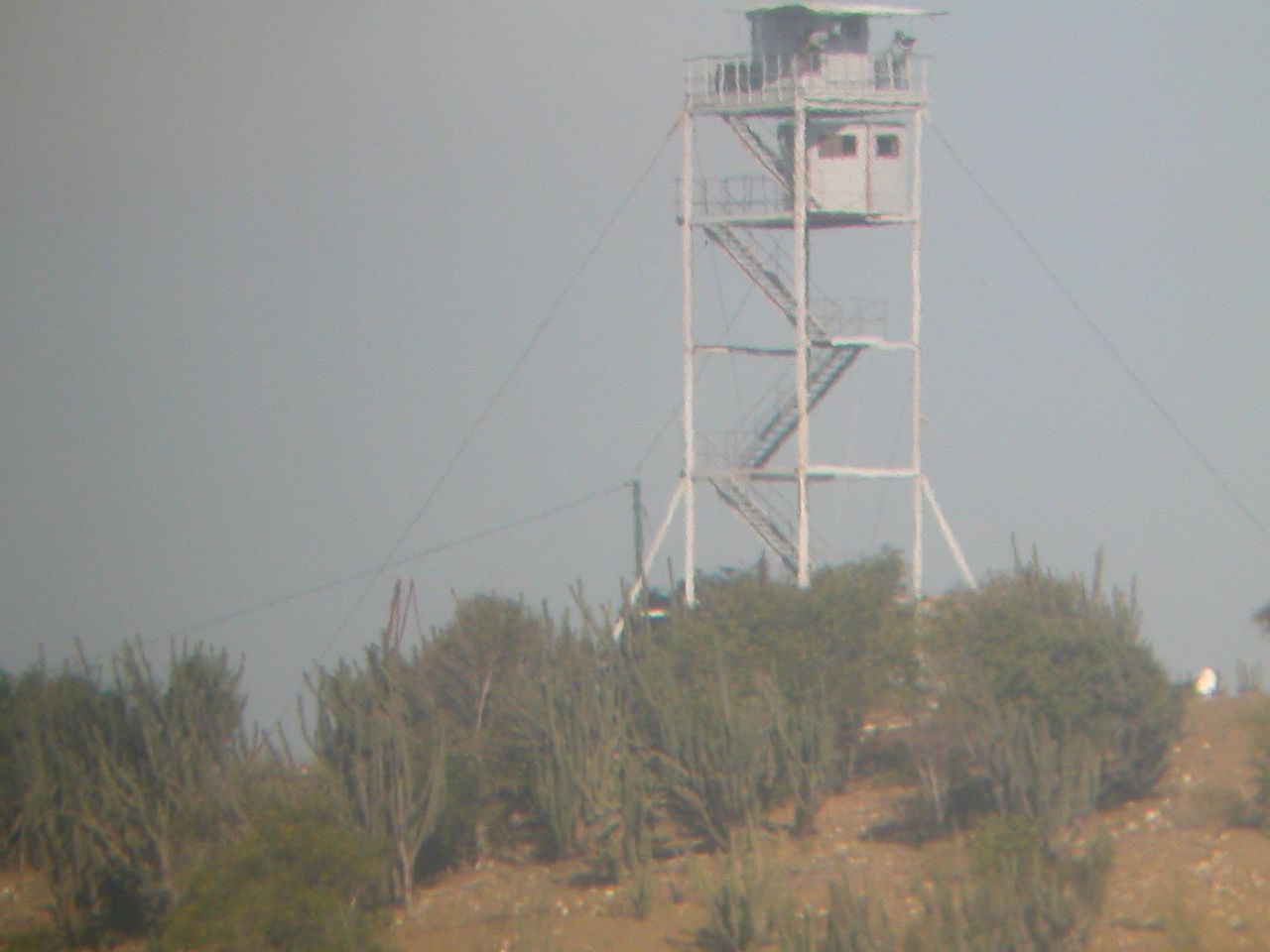 Cuban Frontier Brigade Soldiers on one of their observation posts. they have one tower in front of each one of ours. Photo taken using binoculars.